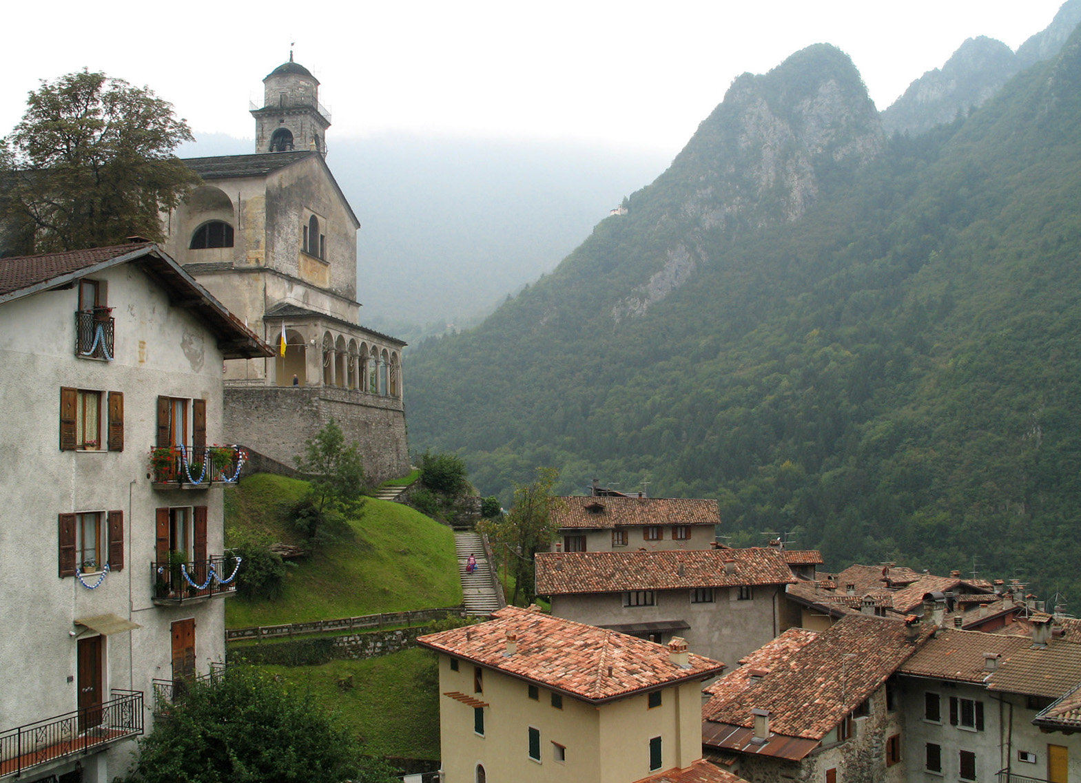 Cathedral and village of Bagolino, located near Lake Garda in the province of Brescia/Italy